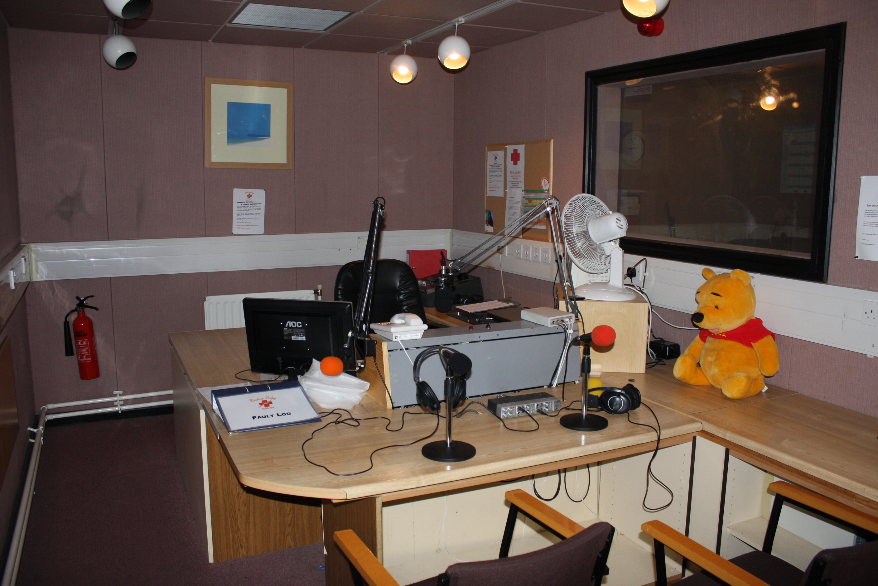 The broadcasting studio in Radio City 1386AM located at Singleton Hospital in Swansea.